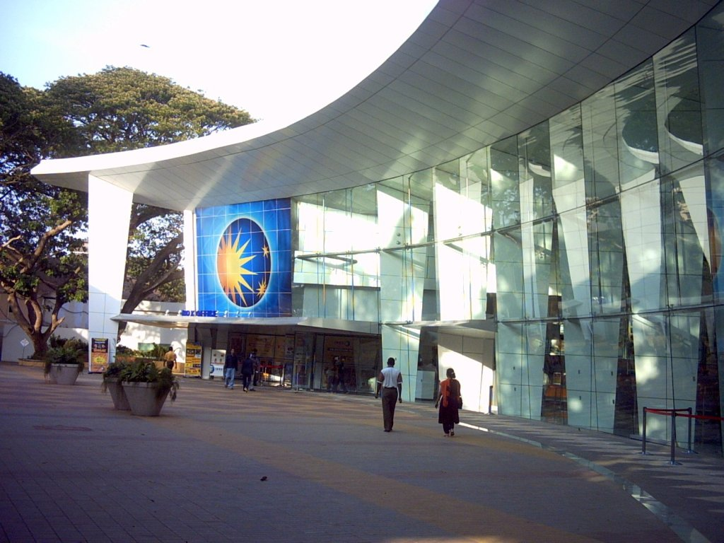 The INOX Multiplex Theatre in Goa, India